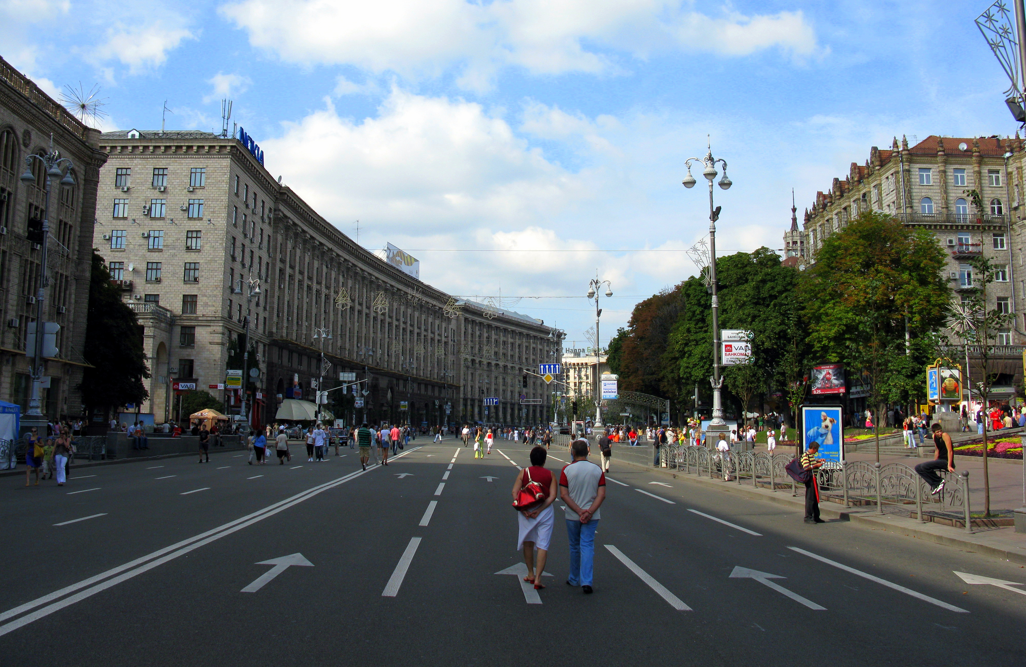 Khreshchatyk free of traffic for pedestrians to walk down